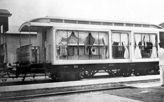 Special wagon was prepared by NIS (Train Company of Netherlands Indies) to transport the coffin of Pakubuwana X († 20. Feb. 1939), ruler of Surakarta, to Yogyakarta